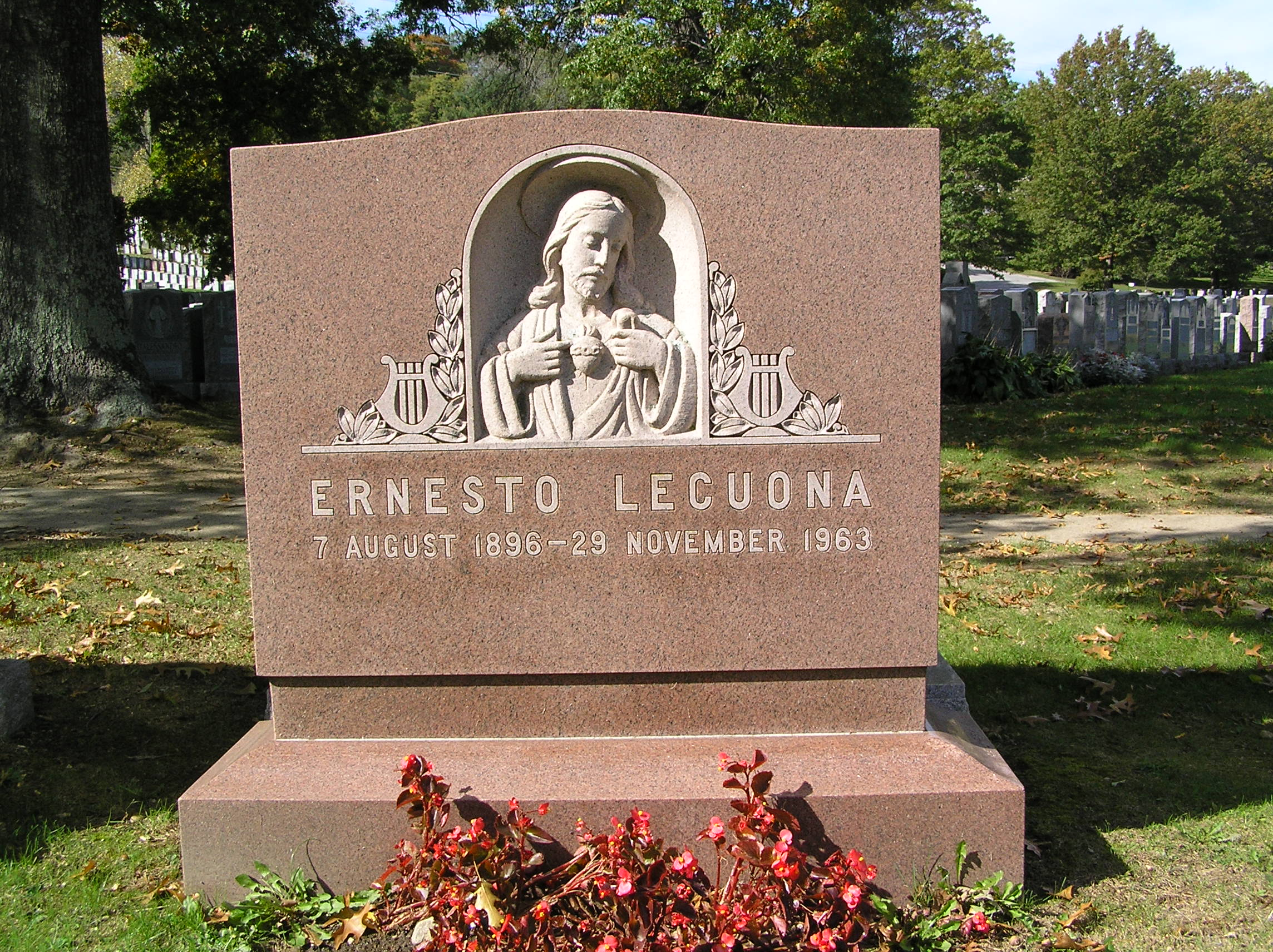 User:White Cat/Copyrightreview I took this photograph of the grave of Ernesto Lecuona in Gate of Heaven Cemetery on Monday, October 22, 2007.